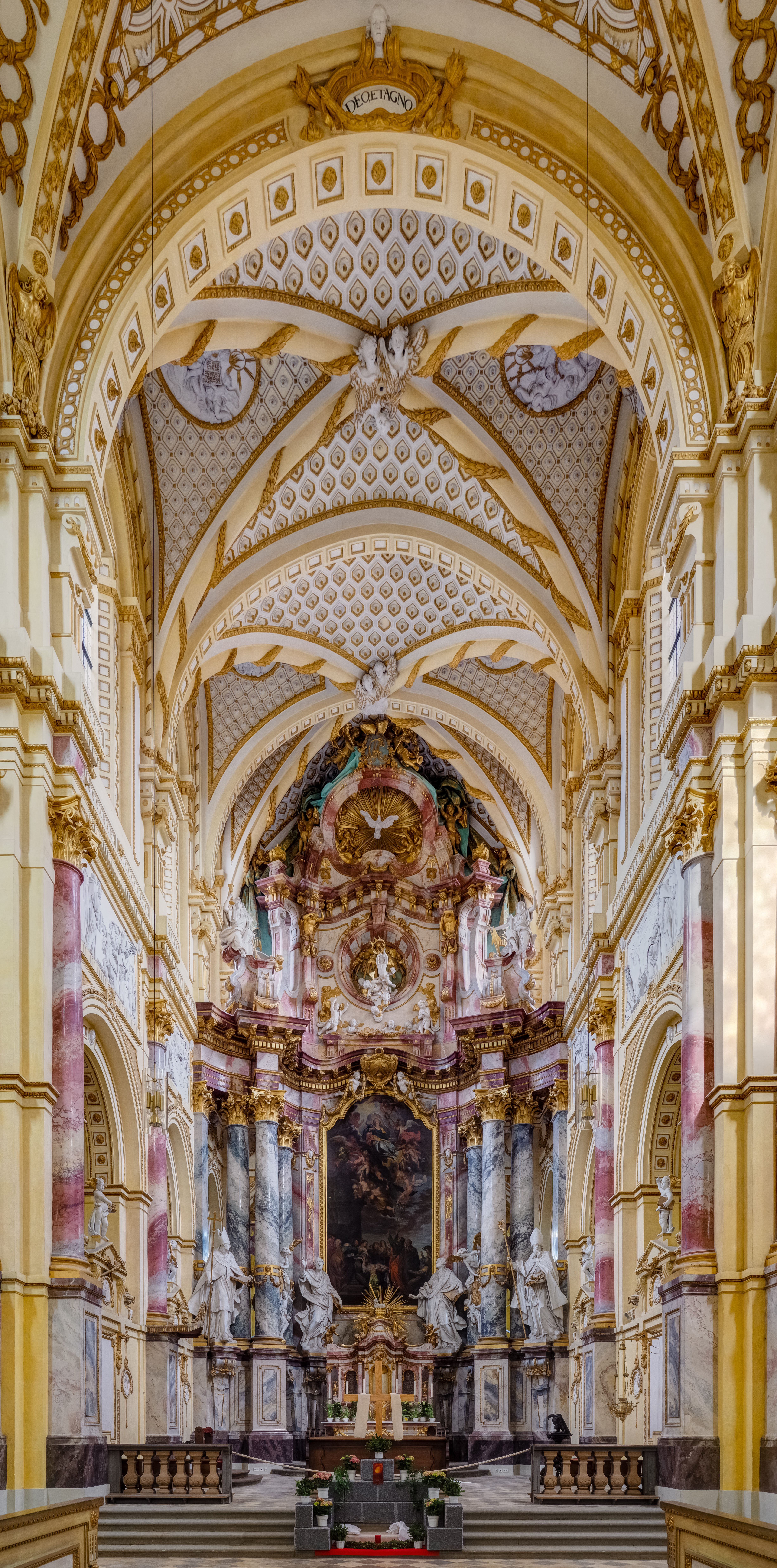 Altar room in the former abbey church in Ebrach